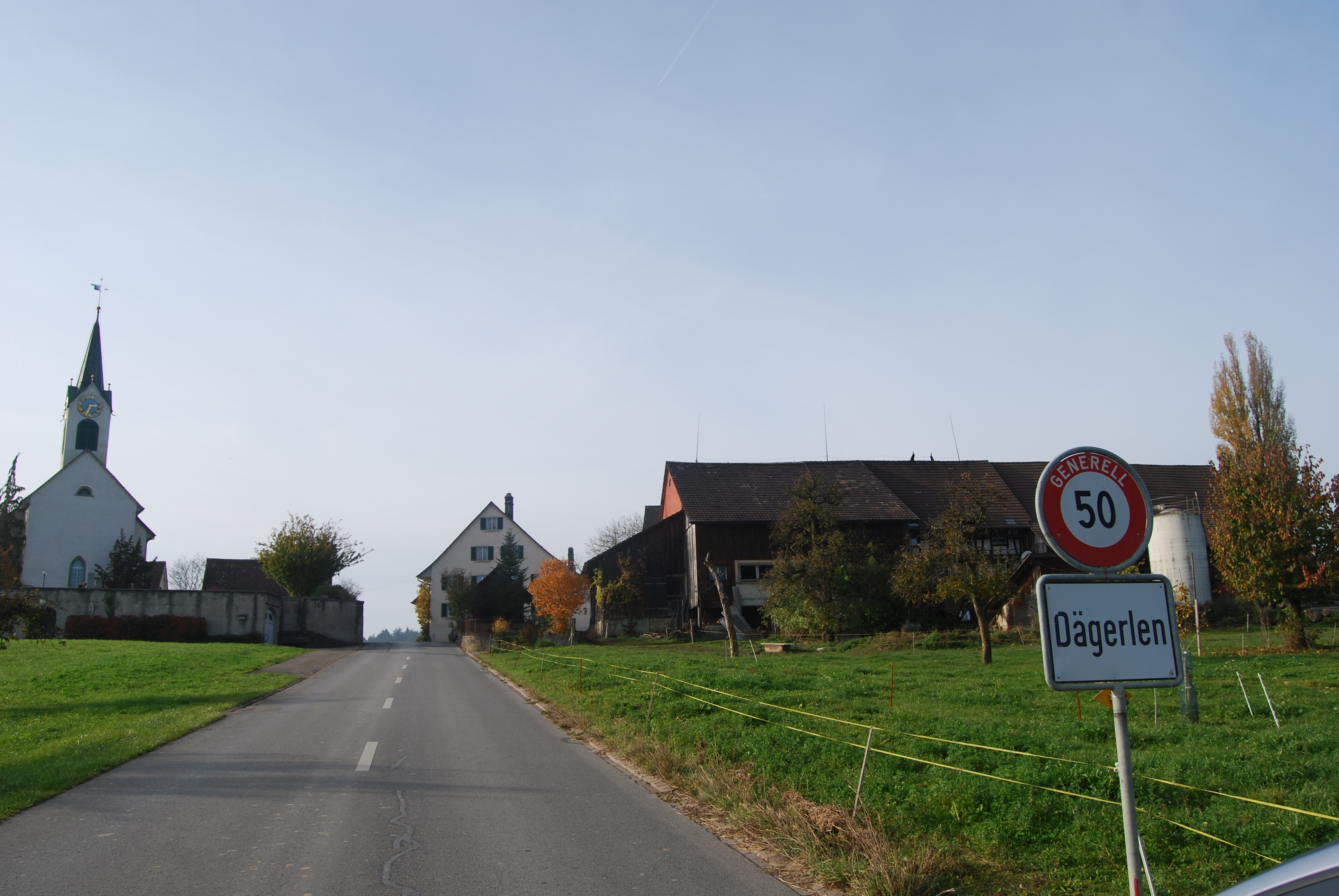 Church of Dägerlen, canton of Zürich, SwitzerlandEsperanto: Preĝejo de Dägerlen, Kantono Zuriko, Svislando